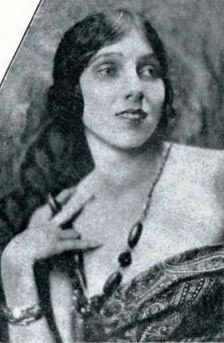 American dancer Margaret Severn in the The Greenwich Village Follies of 1920, on page 15 of the October 1920 The Tatler.